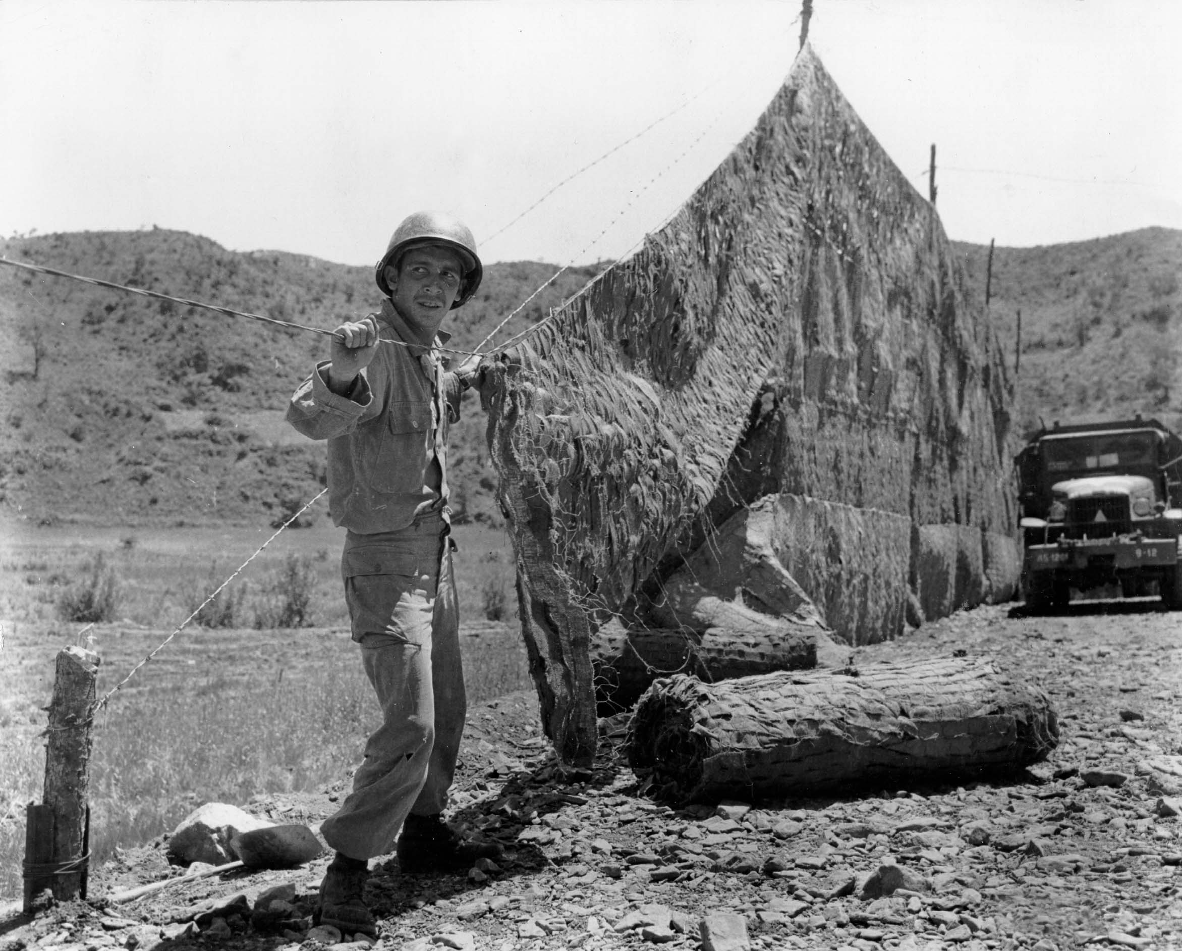 ES51-14-20 (SC401143) 120th Engineer Battalion, 45th Infantry Division, soldier erects a comouflage net over a road exposed to the Communist Forces, Korea. 7 Jun 1952.